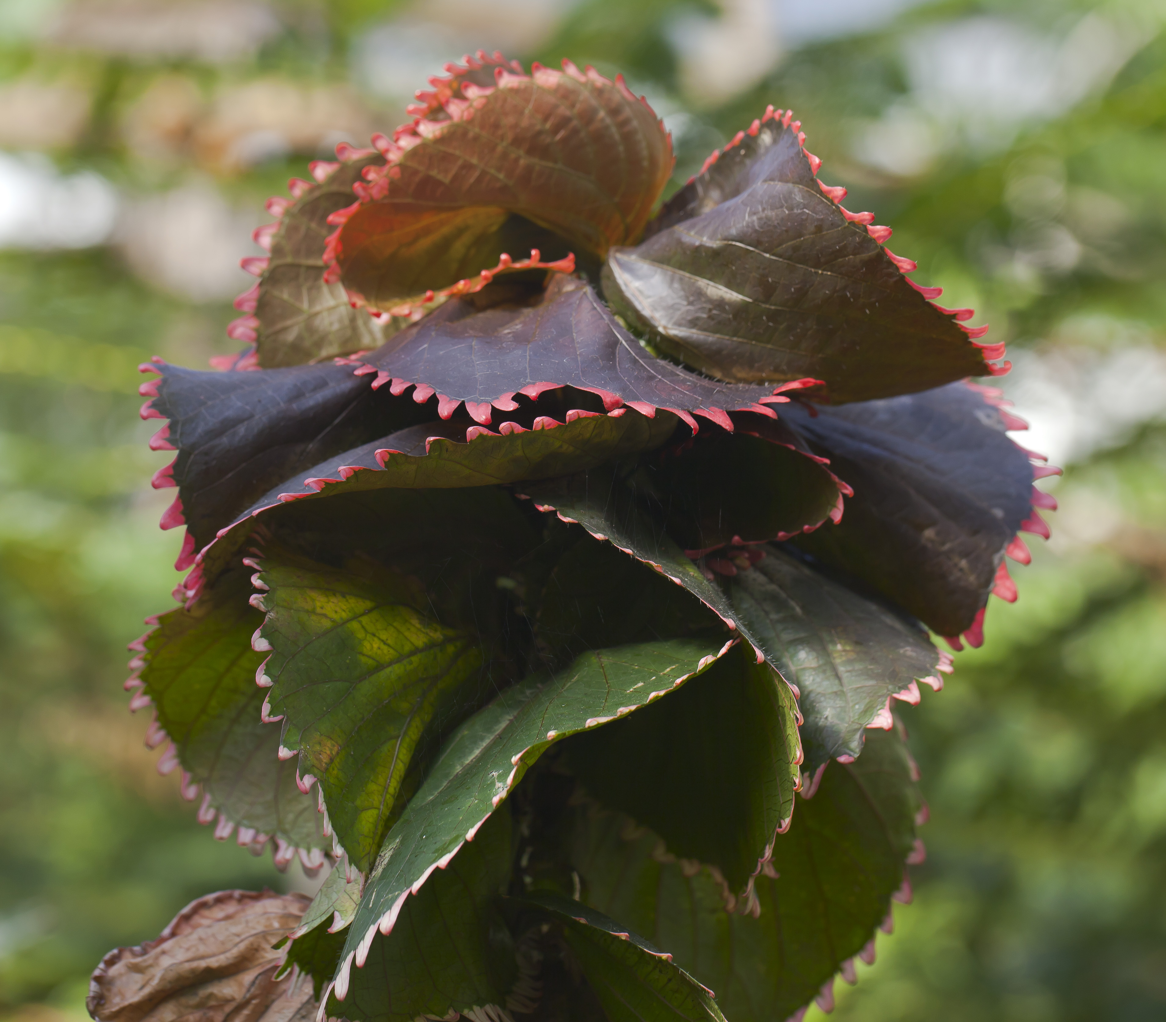 Acalypha wilkesiana, Botanic Conservatory, Fort Wayne, USA